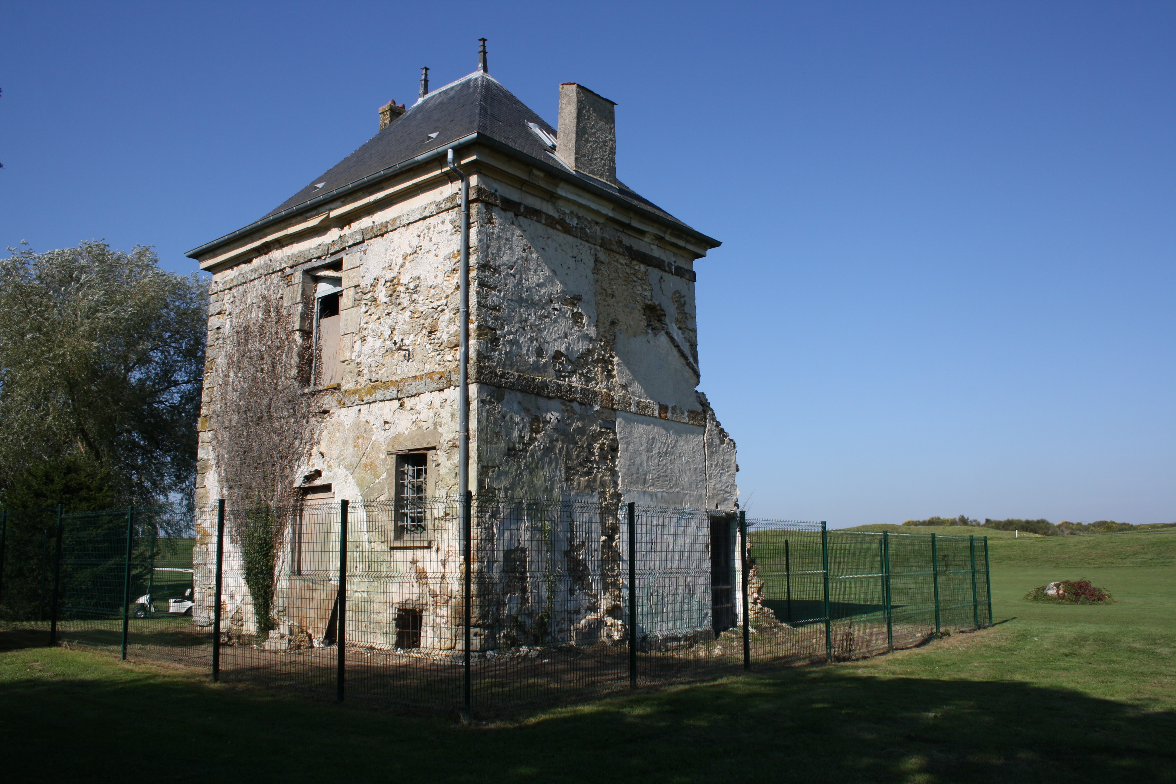 The Porte de Mérantais is a old building located in the Golf National de Saint-Quentin-en-Yvelines (french national golf course) in Magny-les-Hameaux, France.